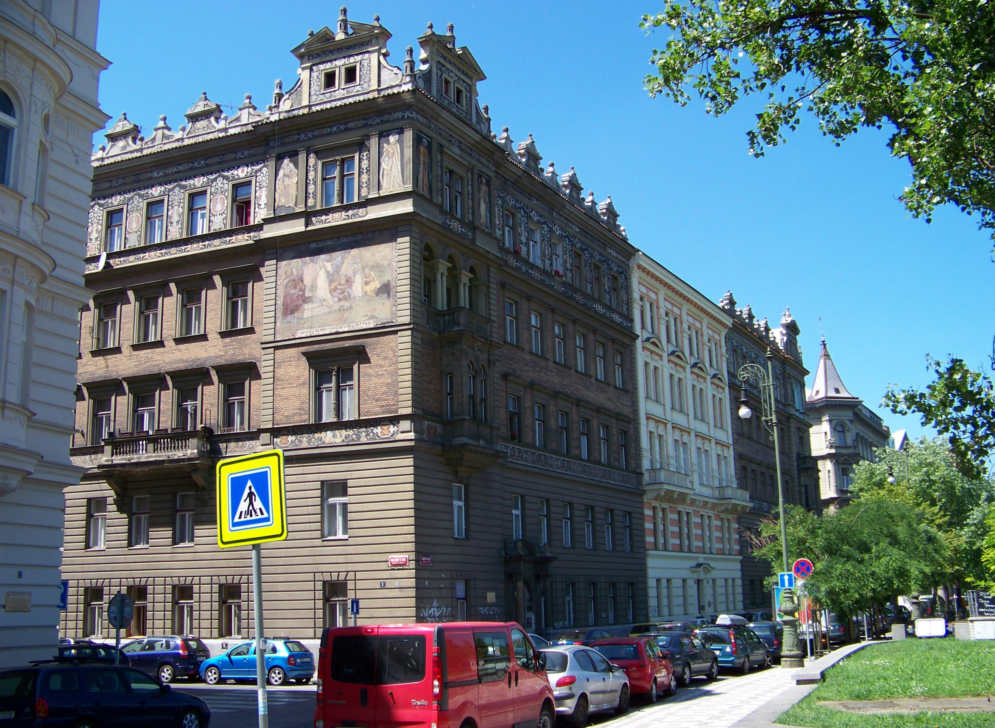 Prague-Smíchov, the Czech Republic. Janáčkovo nábřeží 729/31, Pavla Švandy ze Semčic 729/2.